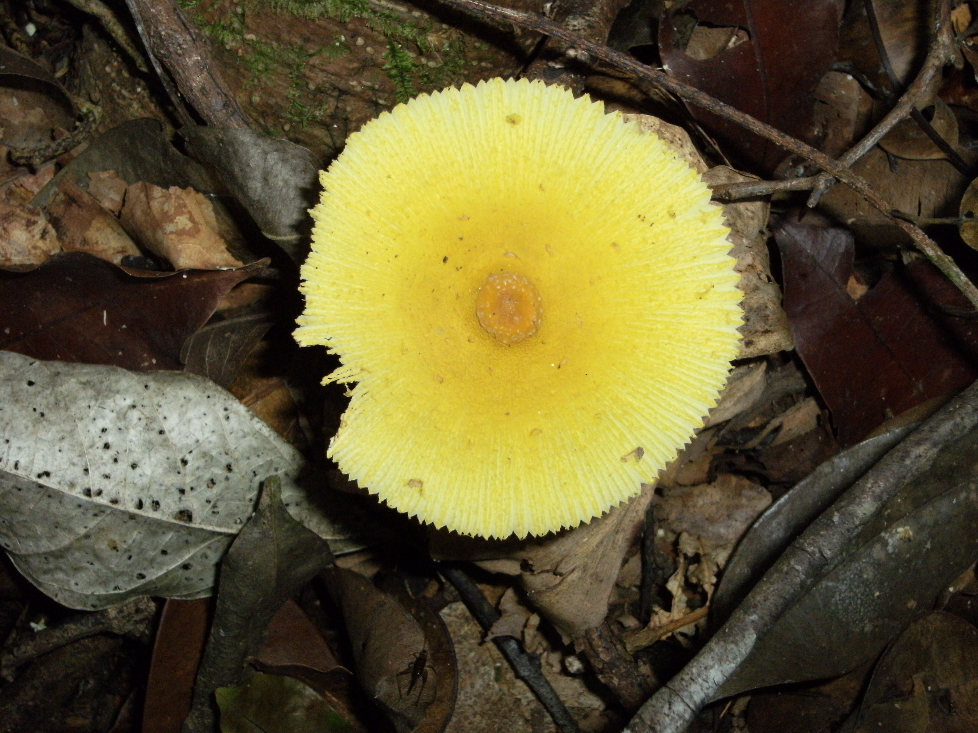 Mushroom at Brownsberg.